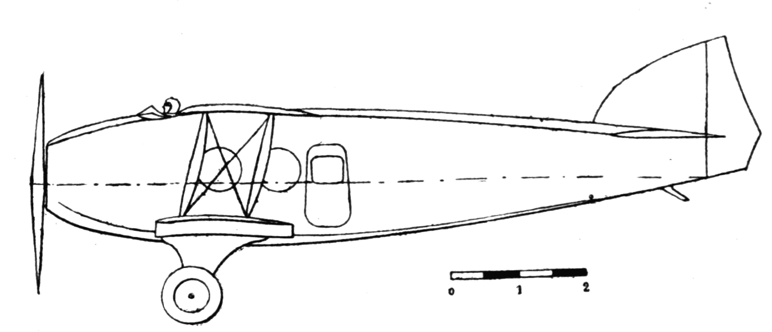 Béchereau SRAP T.7 side drawing from L'Aéronautique December,1926